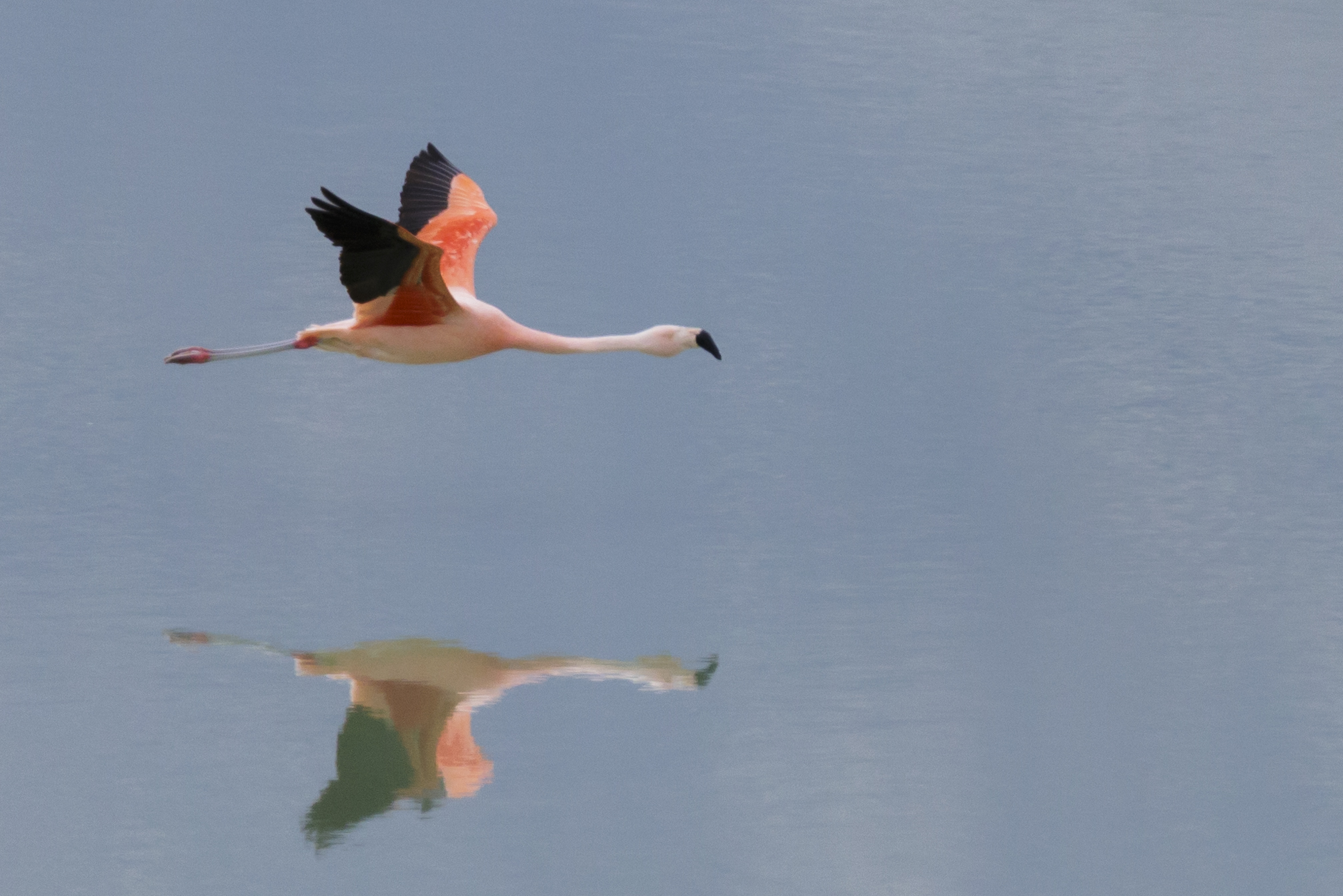 PanAmericana 2017 - the image was taken on an overlanding travel from Ushuaia to Anchorage - taken by Thomas Fuhrmann, SnowmanStudios - see more pictures on / mehr Aufnahmen auf